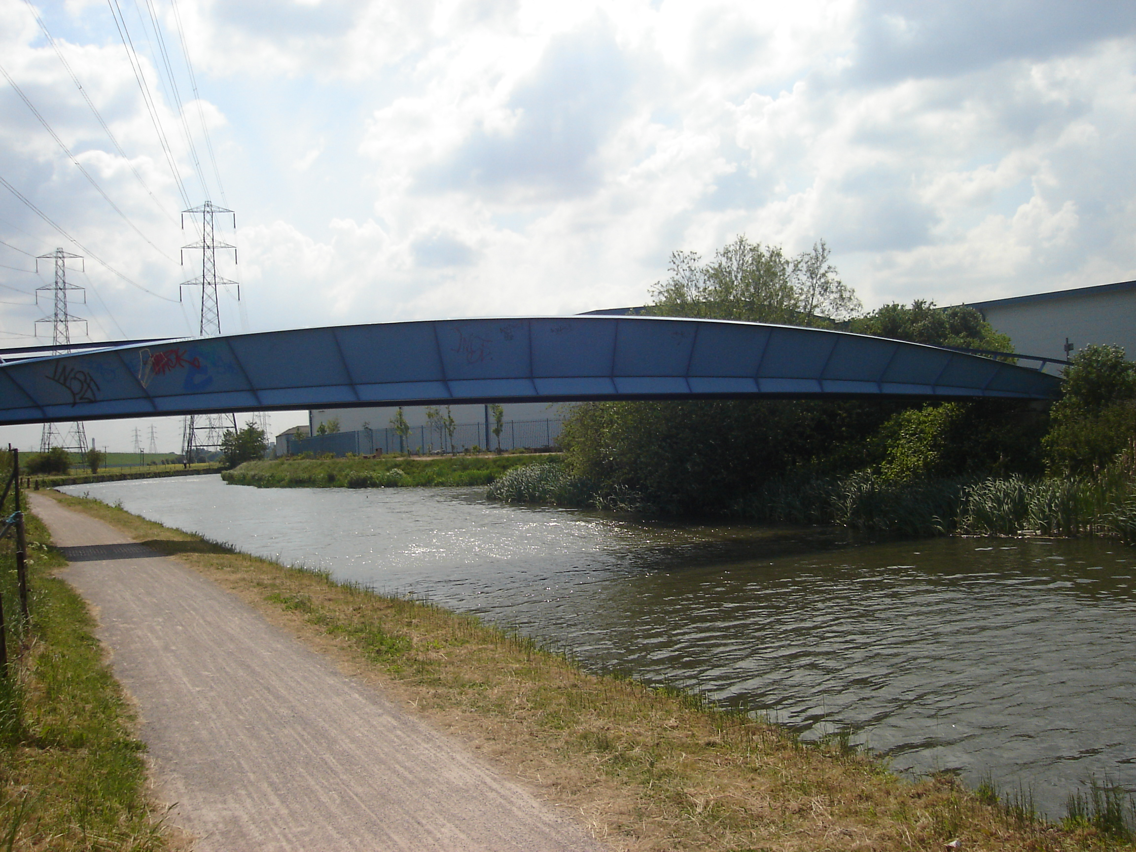 Picture of Mossops Bridge over the River Lee Navigation at Brimsdown